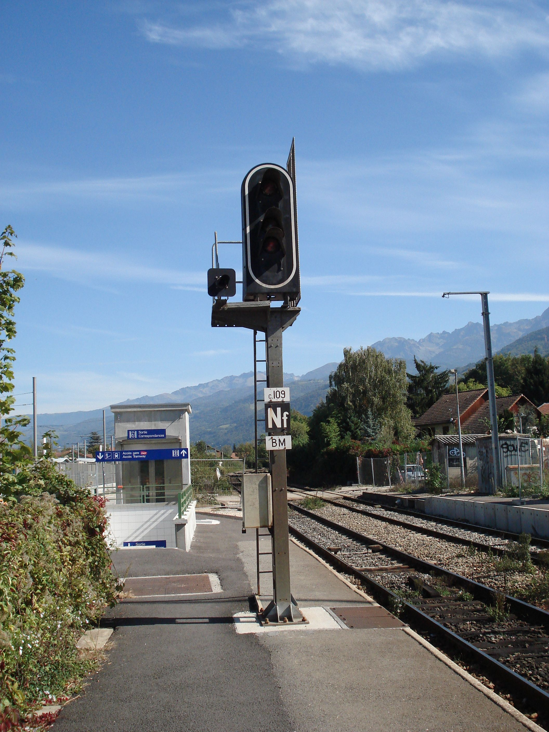 This is a typic french train signal. It's a manual type.